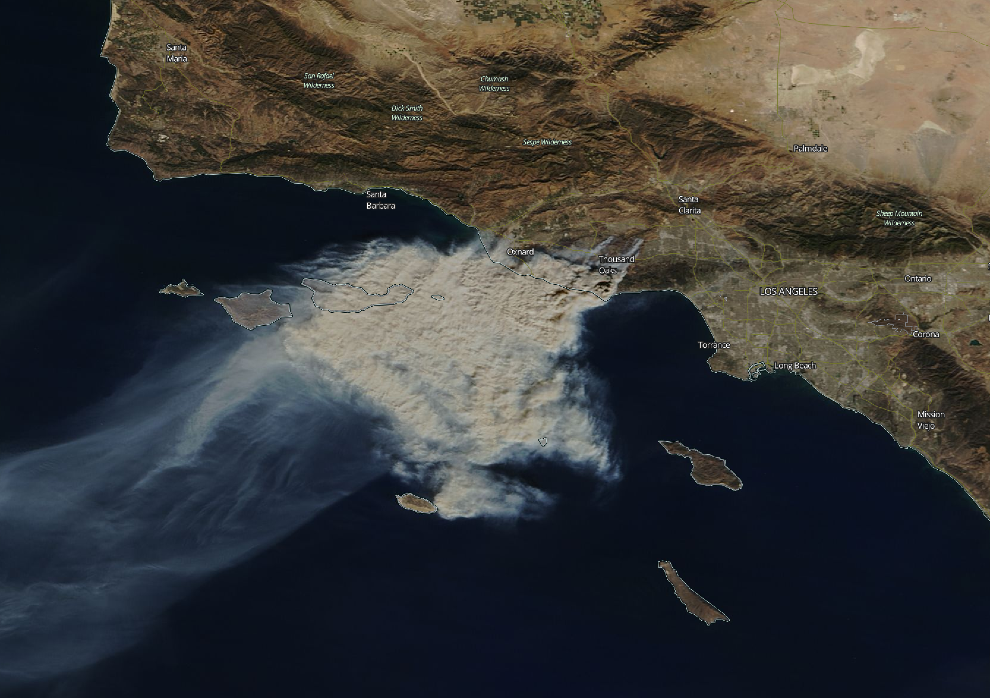 Terra Satellite image of the smoke plume from the Woolsey Fire on November 9, 2018